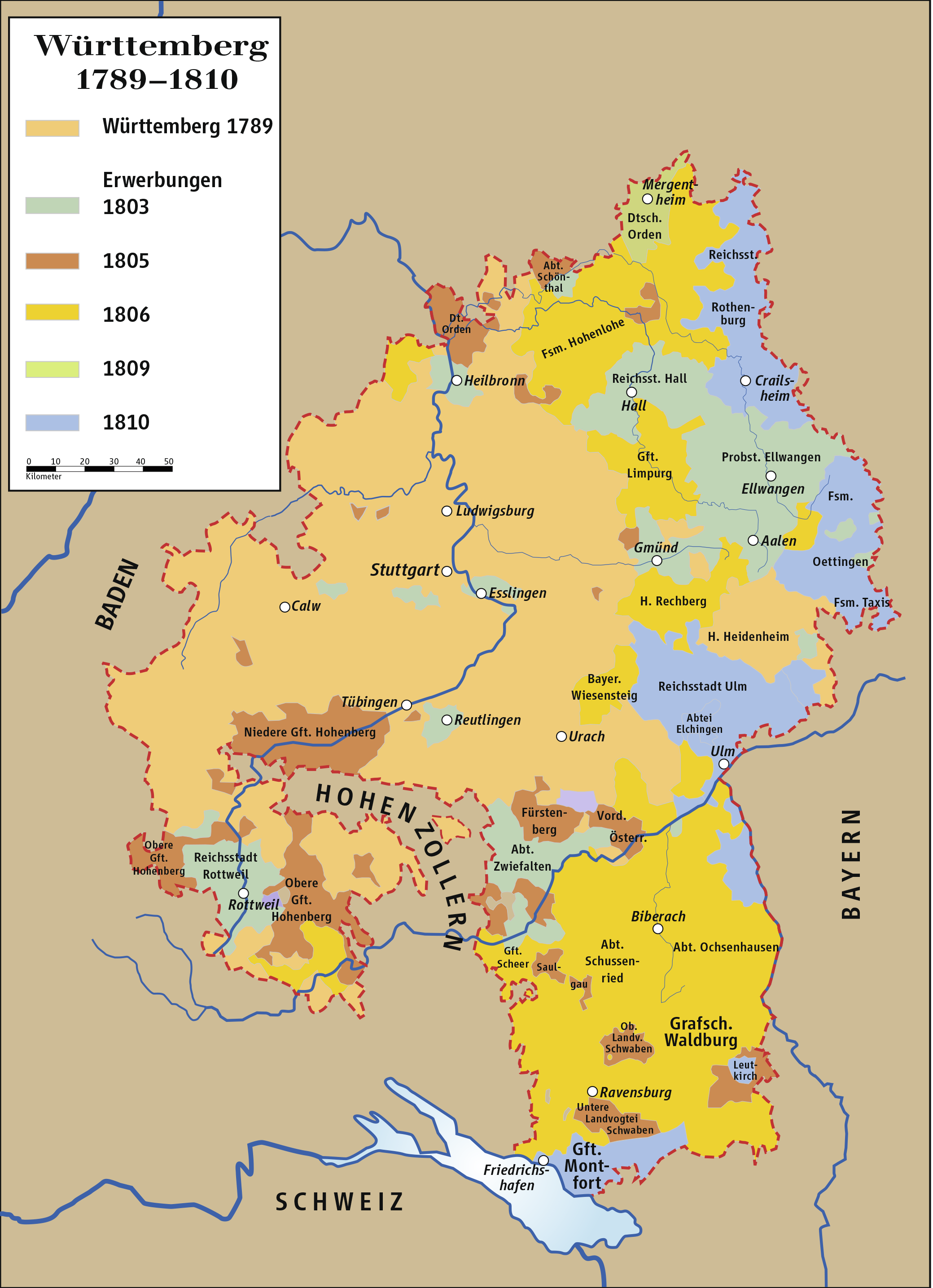 Württemberg Anfang des 19. Jahrhunderts/Wuerttemberg at the beginning of the 19th century